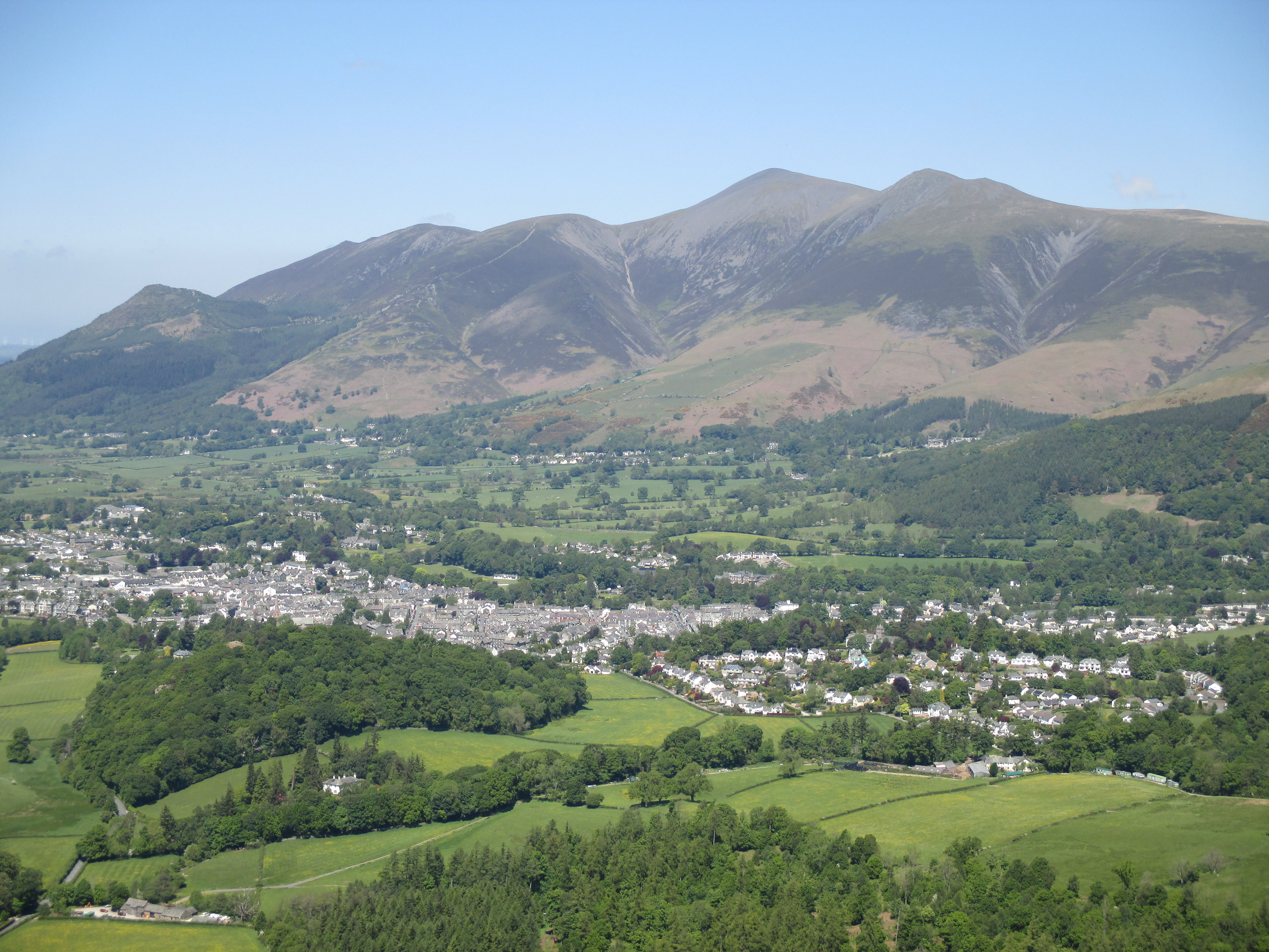 Keswick and Skiddaw, seen from the summit of Walla Crag.